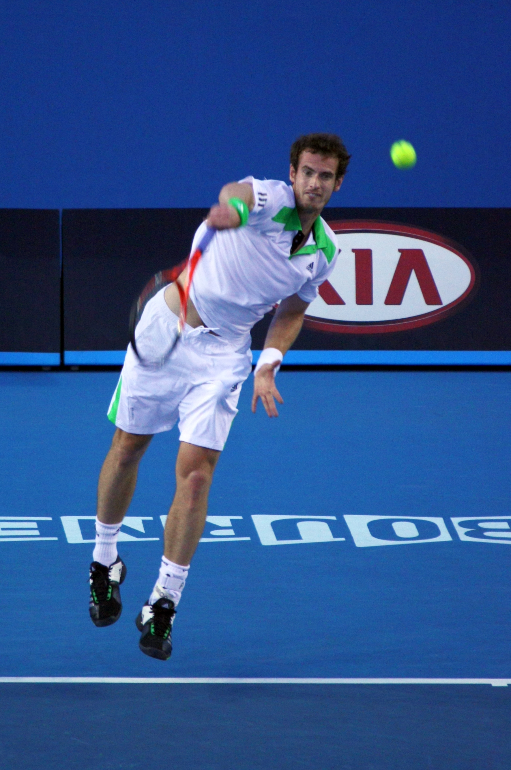 Andy Murray serving at the australian open. Picture of serve after impact